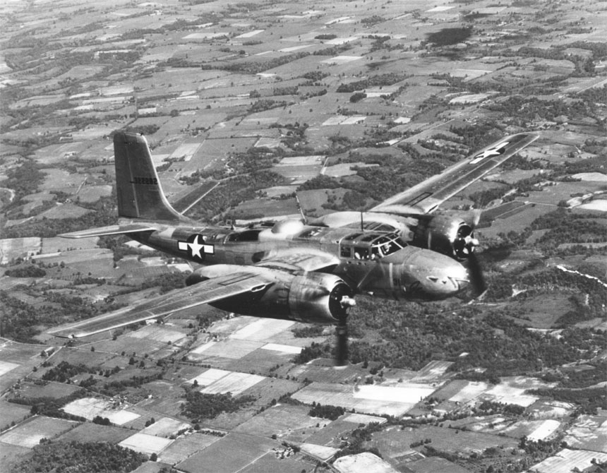 Douglas A-26 (19814 A.C.)